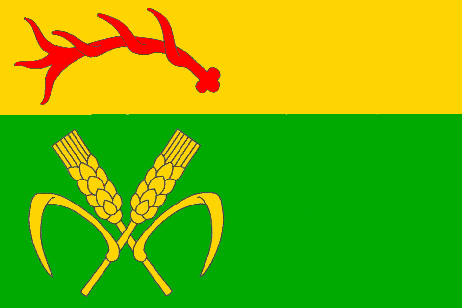 Municipal flag of Krásný Les village, Liberec District, Czech Republic.